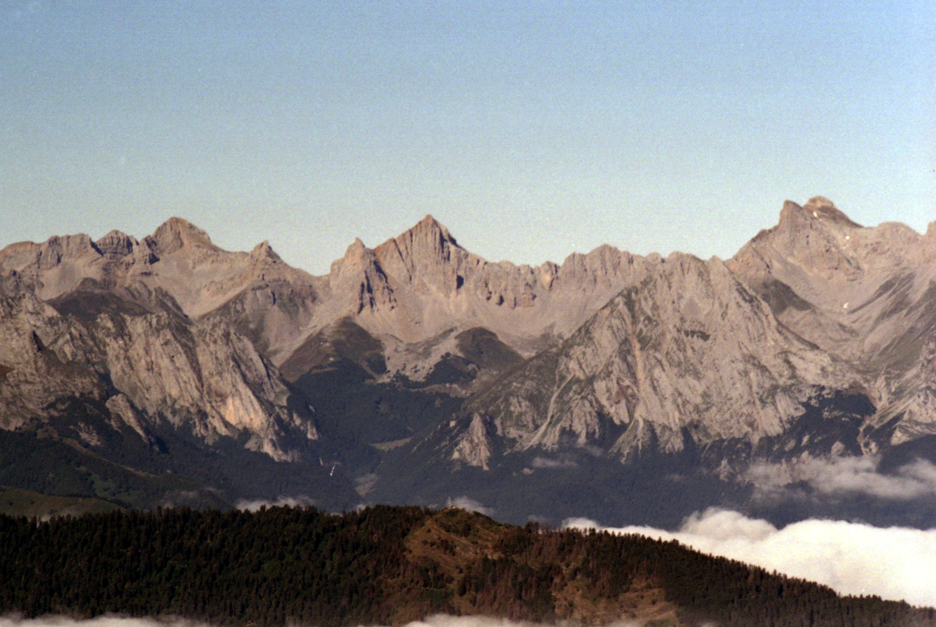 Small Aiguille d'Ansabère, Grand Aiguille d'Ansabère, at right also the Table and Pic des Trois Rois